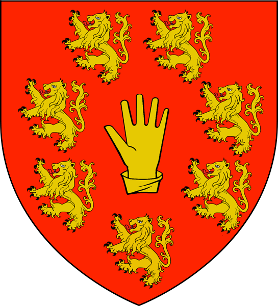 Arms of Tyrion Lannister